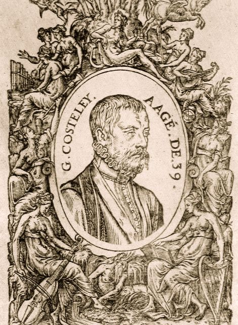 from [1] -- PD-art, probably woodcut from Le Roy & Ballard, 1570